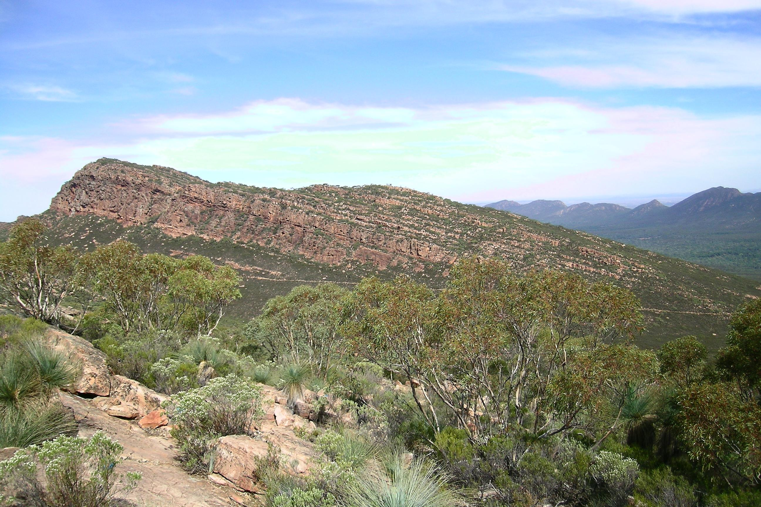 Wilpena Pound, South Australia, detail of a mountain showing a characteristic layered syncline